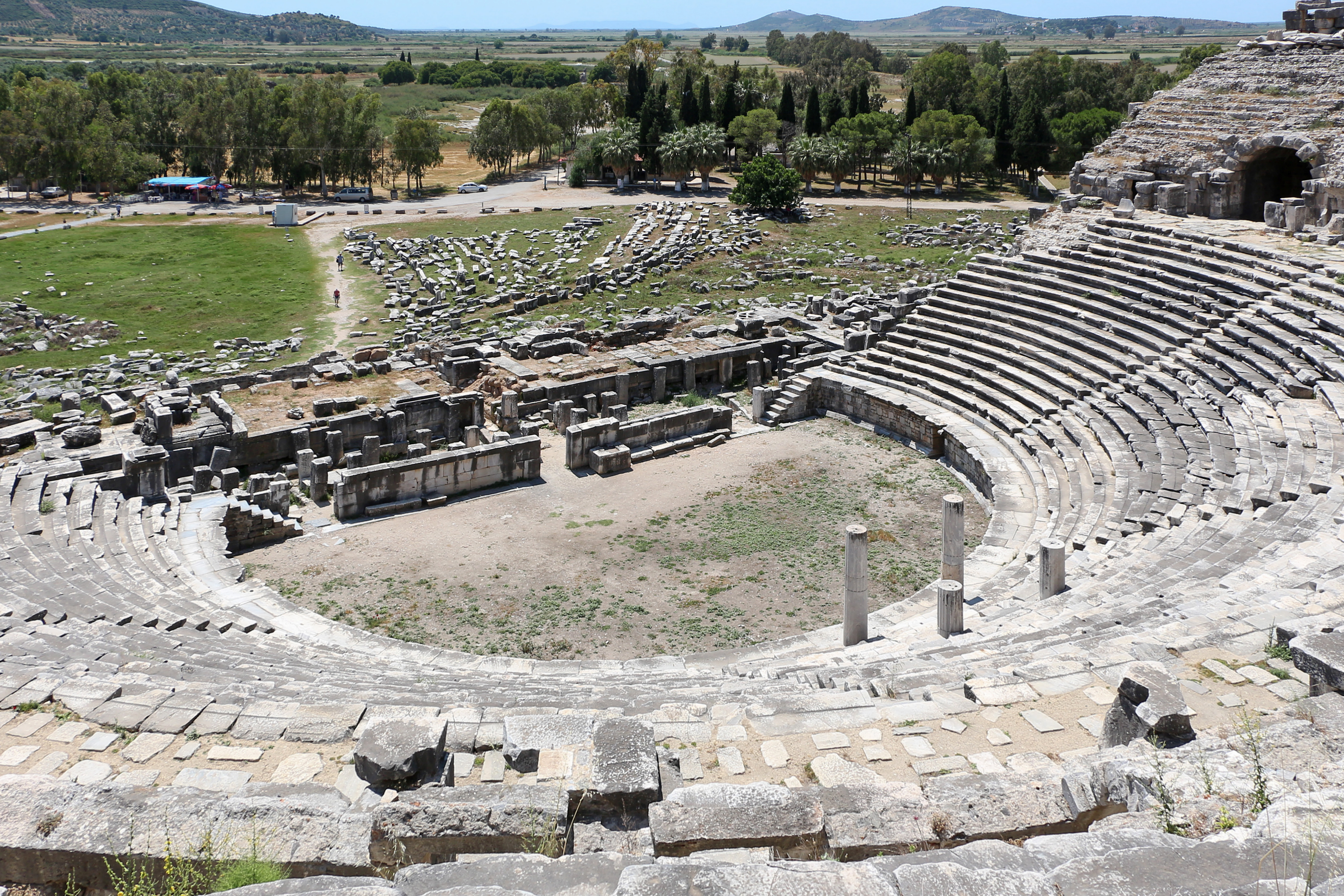 Ancient Greek theatre in Miletus, Turkey